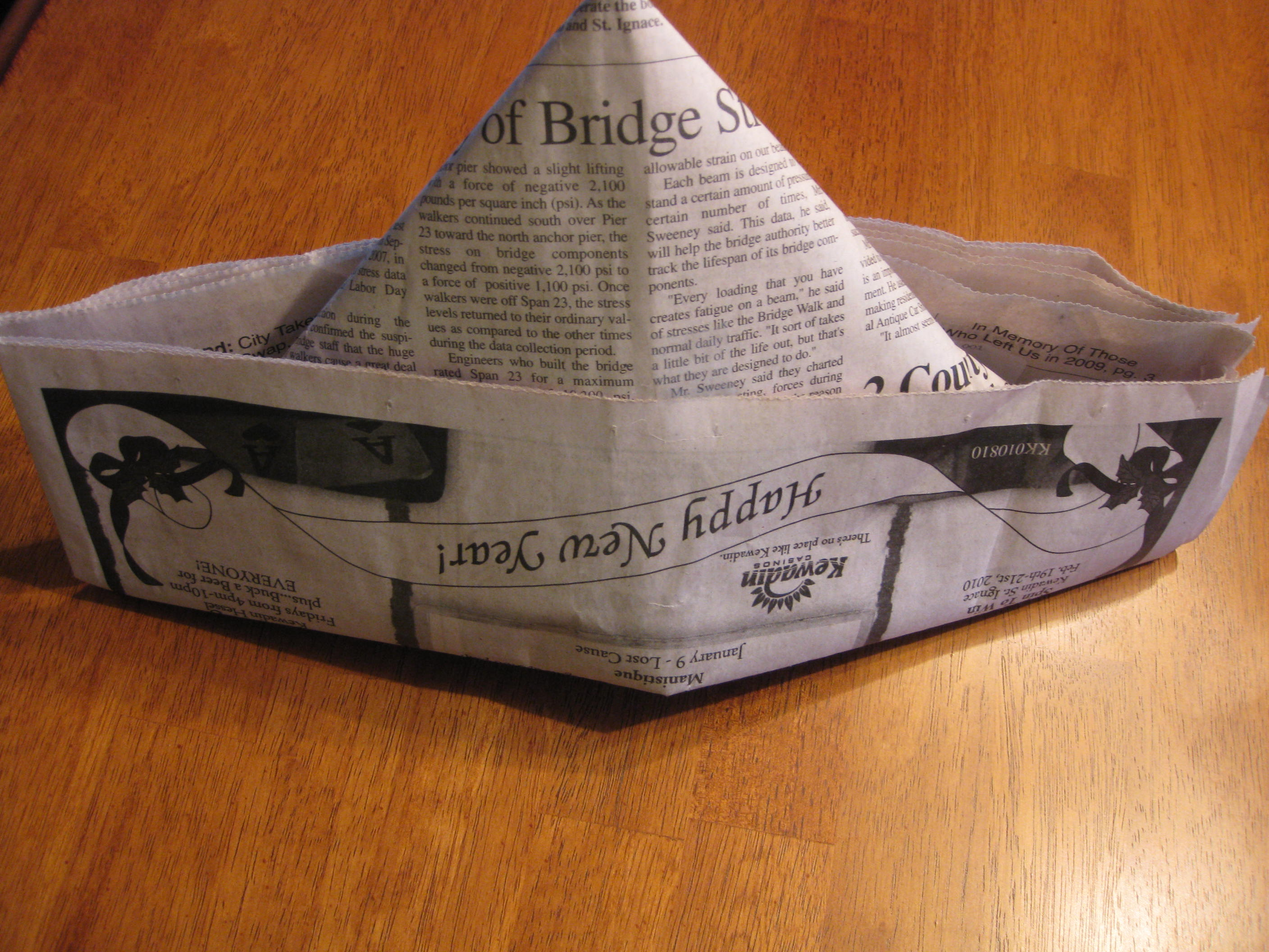 A newspaper hat